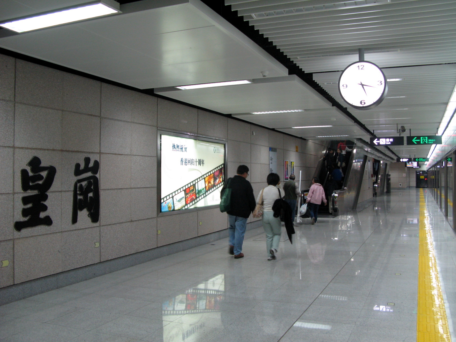 ShenZhen Metro Huang Gang Station Platform